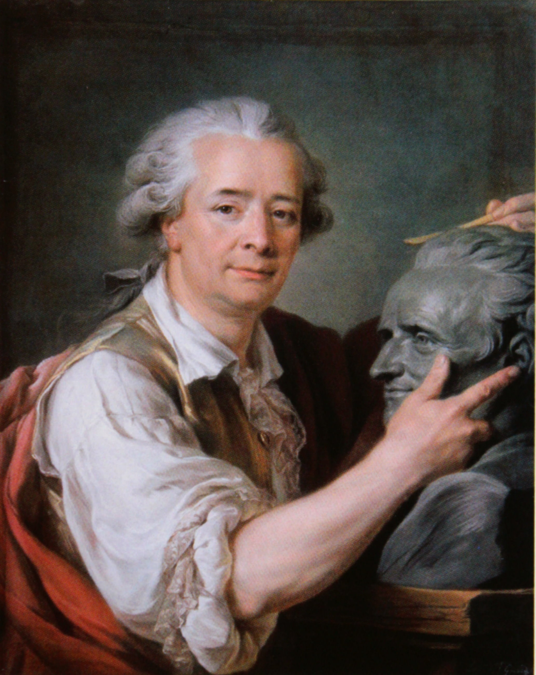 Augustin Pajou sculping a bust of his teacher Lemoyne the Younger